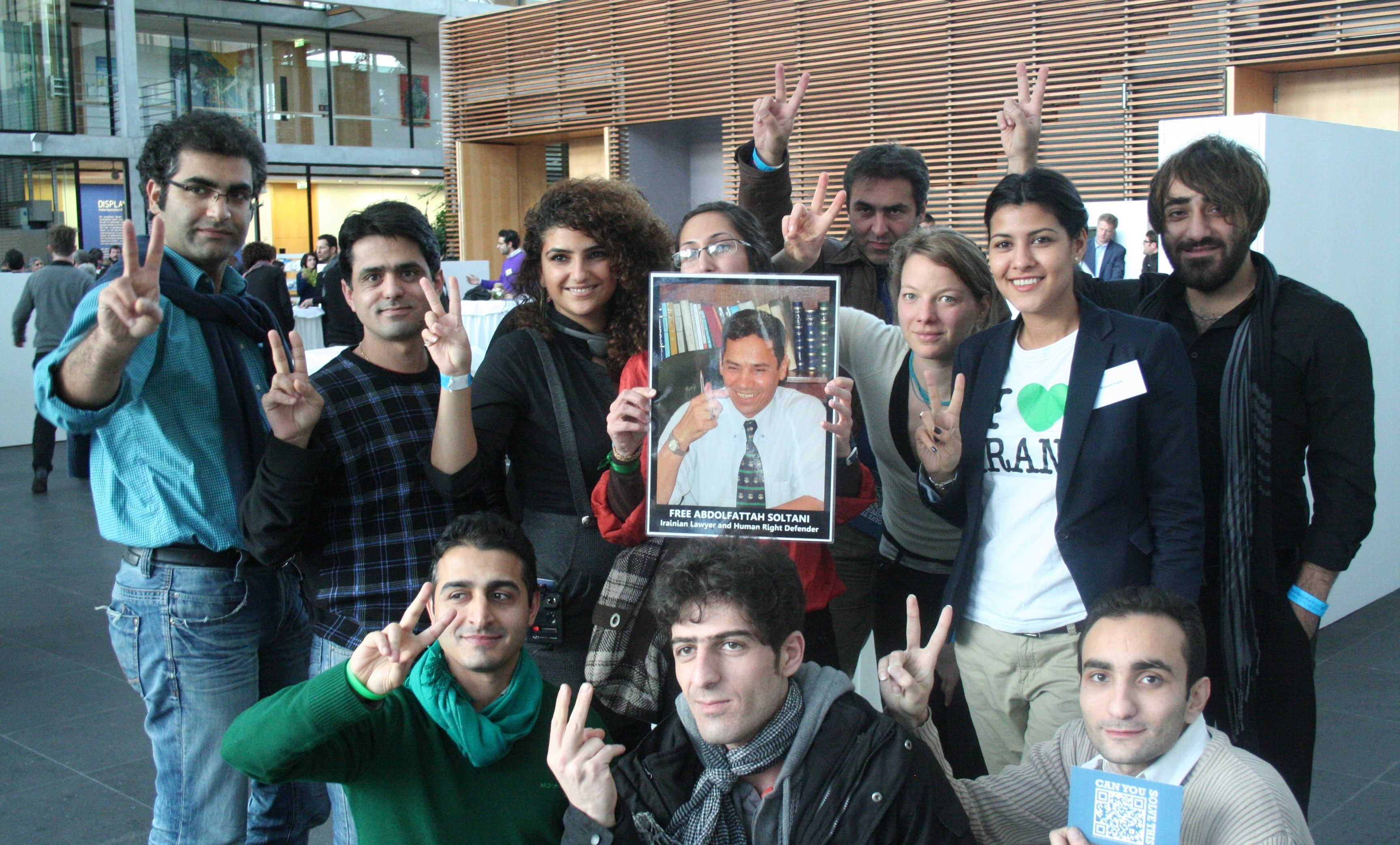 Maede Soltani asks for freedom of his father, the lawyer Abdolfatah Soltani, who has been jailed by the Islamic Regime in Tehran. The conference "Inside Iran", Berlin, 12 Nov. 2011. Photo by Persian Dutch Network